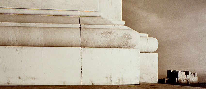 Castel dell'Ovo, Naples - Augusto De Luca photo